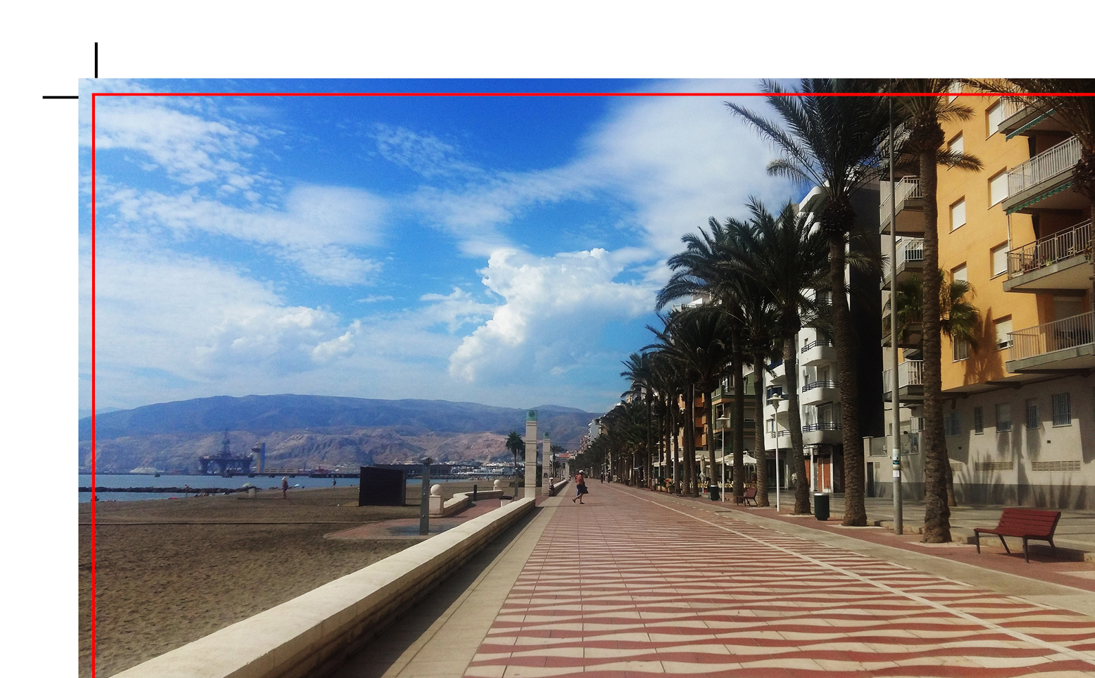 The illustration prepared for placing on the bleed. The red lines – the edges of the trim of the page; the severed area is called the bleed